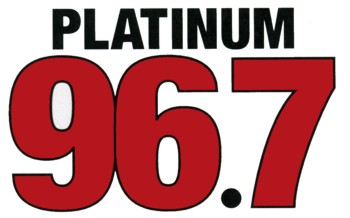 WBAP-FM logo